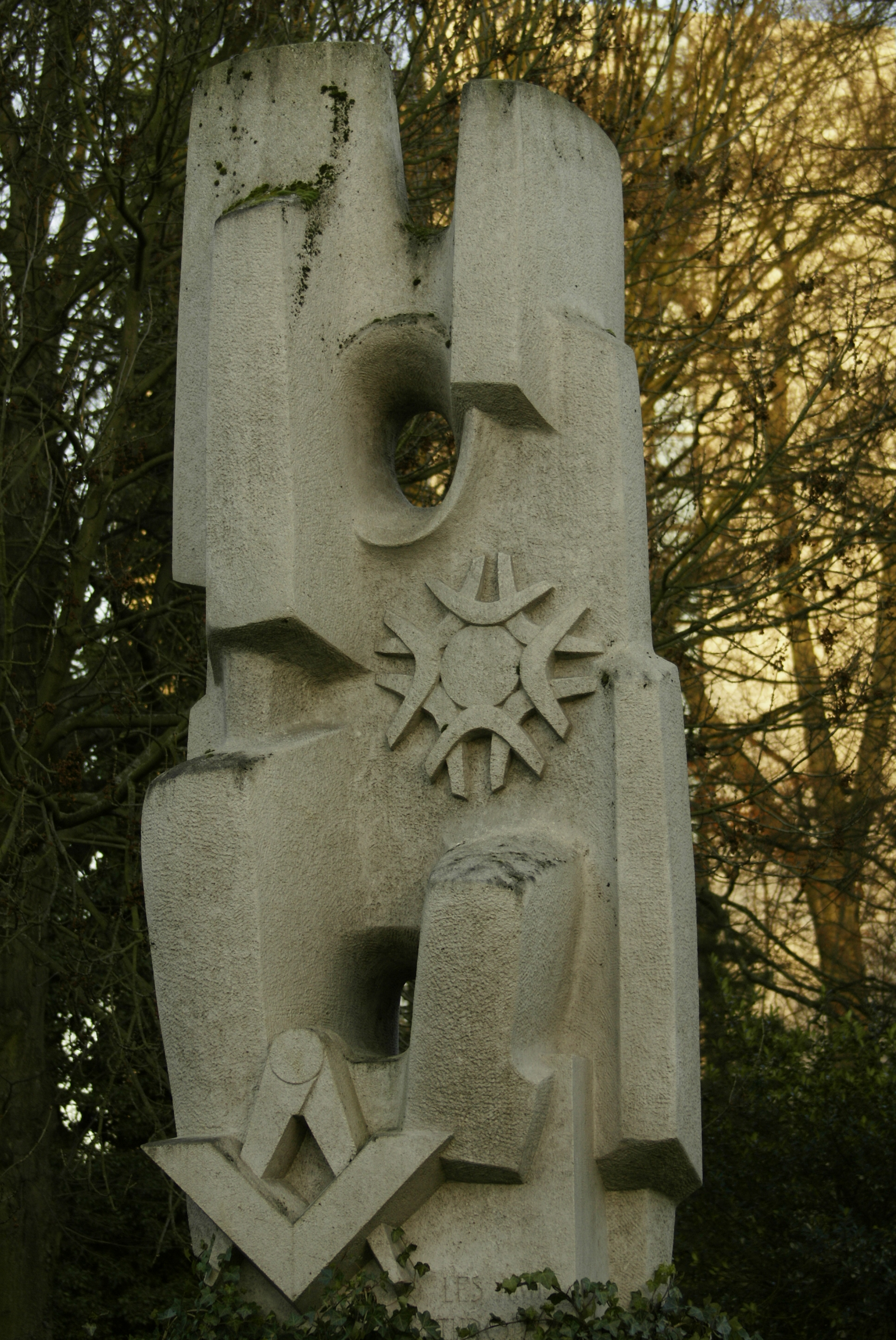 A Masonic column at the "ULB Campus du Solbosch" in the City of Brussels